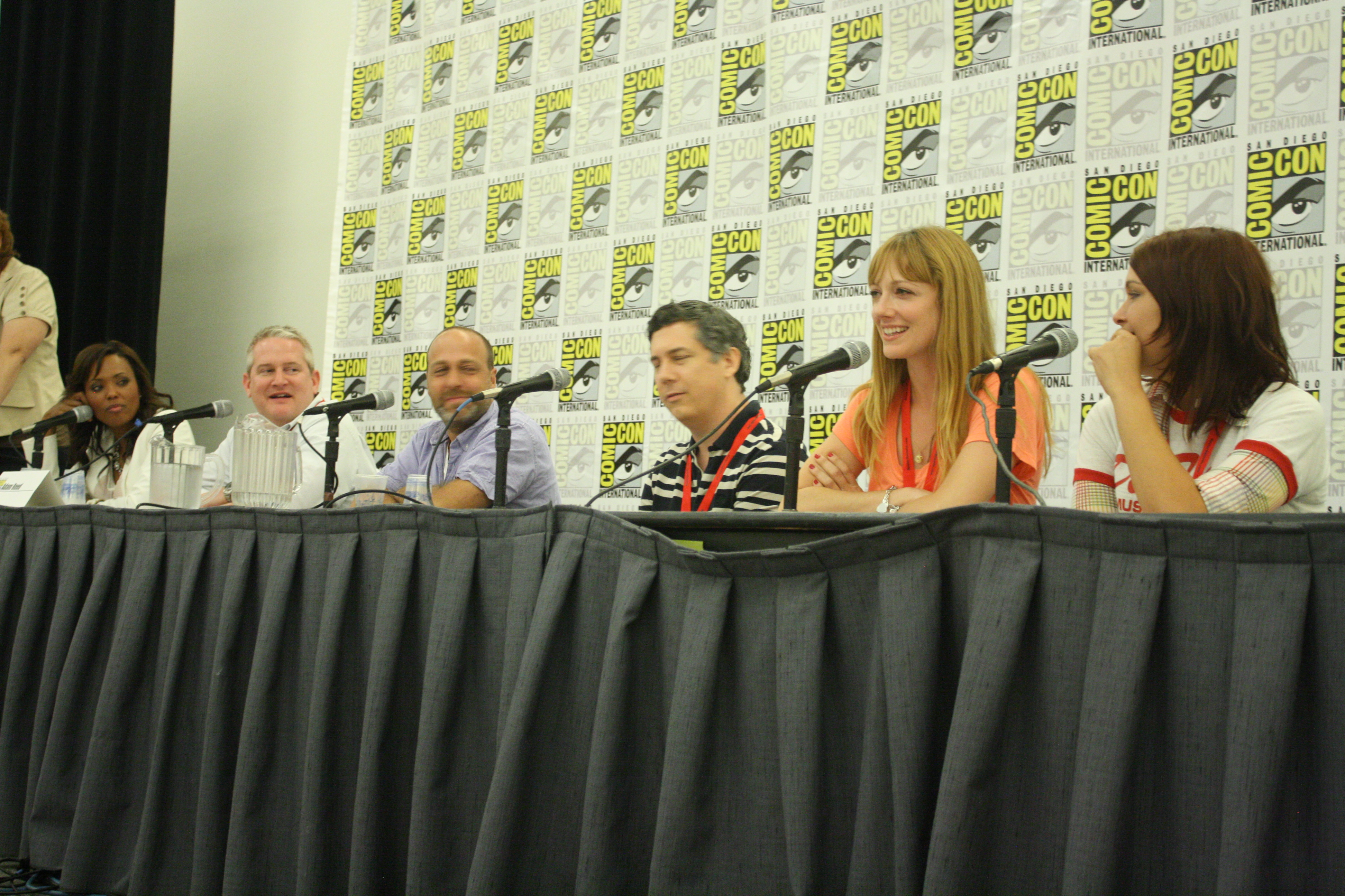 Archer cast at 2010 Comic-Con International. From left to right: Aisha Tyler, Adam Reed, H. Jon Benjamin, Chris Parnell, Judy Greer and Amber Nash